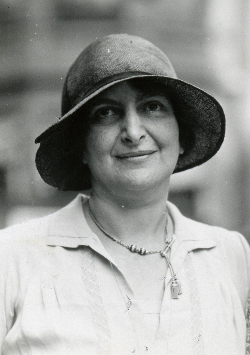 Subject: Gruenberg, Sidonie Matsner 1881- Gans, Bird Stein 1868-1944 Child Study Association of America Society for the Study of Child Nature Type: Black-and-White Prints Topic: Child development Local number: SIA Acc. 90-105 [SIA-SIA2008-2131] Summary: Sidonie Matsner Gruenberg (1881-1974) and Bird Stein Gans (1868-1944). Gruenberg was an educator and writer, author of Your Child Today and Tomorrow, and director of the Child Study Association of America, 1923-1950. Gans was one of the founders of the Society for the Study of Child Nature (see SIA Digital No. 2008-1845). Cite as: Acc. 90-105 - Science Service, Records, 1920s-1970s, Smithsonian Institution Archives Persistent URL:Link to data base record Repository:Smithsonian Institution Archives View more collections from the Smithsonian Institution.